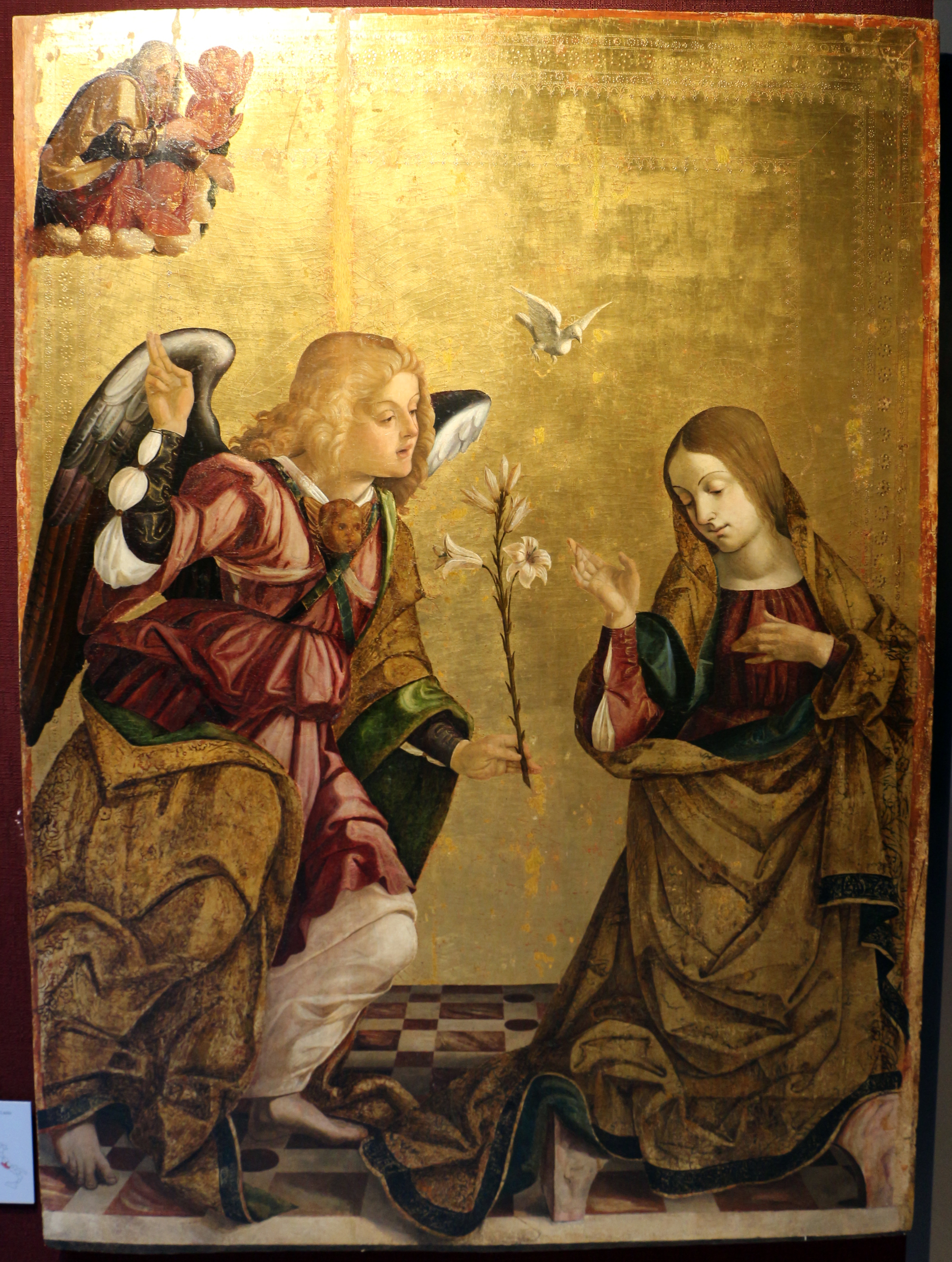 Il Tesoro d'Italia (exhibition at Expo 2015)